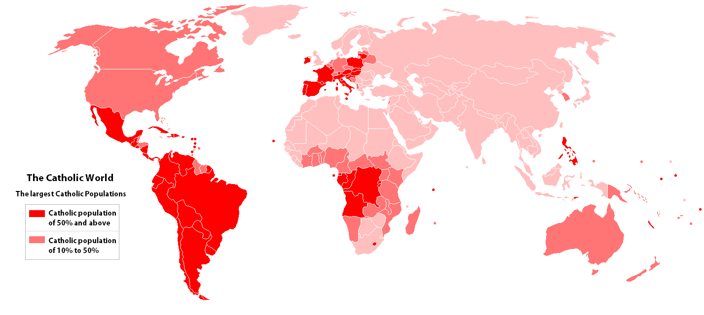 The Catholic World - largest Catholic populations